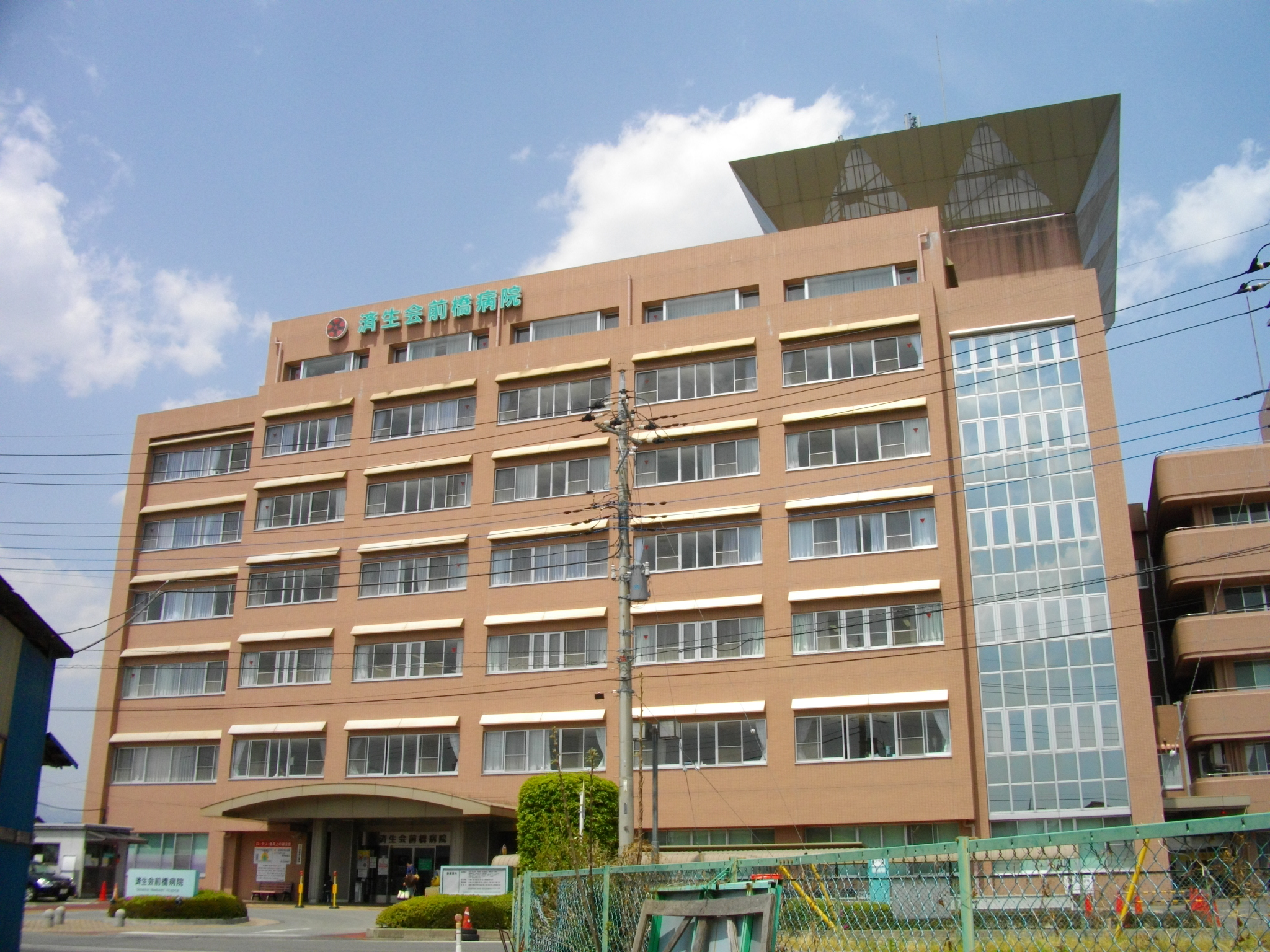 Saiseikai Maebashi Hospital